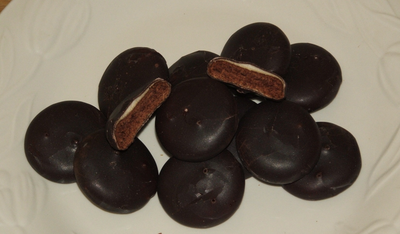 Snackwell's Devils Food cookies by Nabisco, a division of Kraft Foods Global, Inc., Northfield IL (USA)